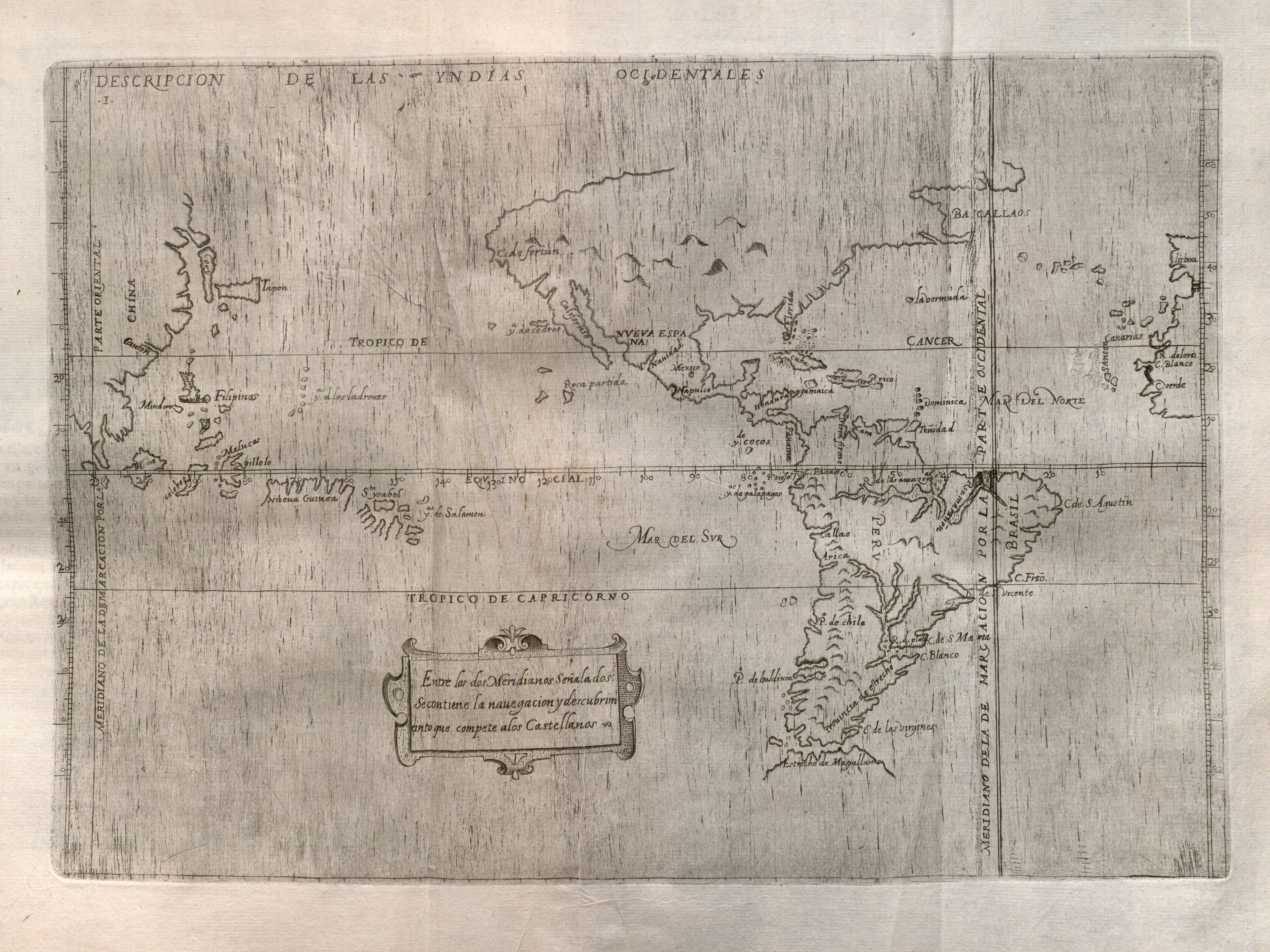 Spain's official history of the discovery, conquest, and colonization of the Indies at the end of the sixteenth century includes maps of which this is the first, covering the western portions of the Iberian Peninsula and Africa, the Atlantic, both the Americas, the Pacific Ocean, and the eastern portion of Asia. Prominent at right in the map is the meridian line dividing Portuguese and Spanish possessions according to the 1494 Treaty of Tordesillas. The map is largely based upon manuscript charts by Juan Lopez de Velasco, created between ca. 1575-1580. By this time the Spanish had obviously accumulated considerable geographic knowledge along with their extensive claims to a large portion of the world. The outlines of the continents, islands, and various other geographical features are remarkably accurate for their time.